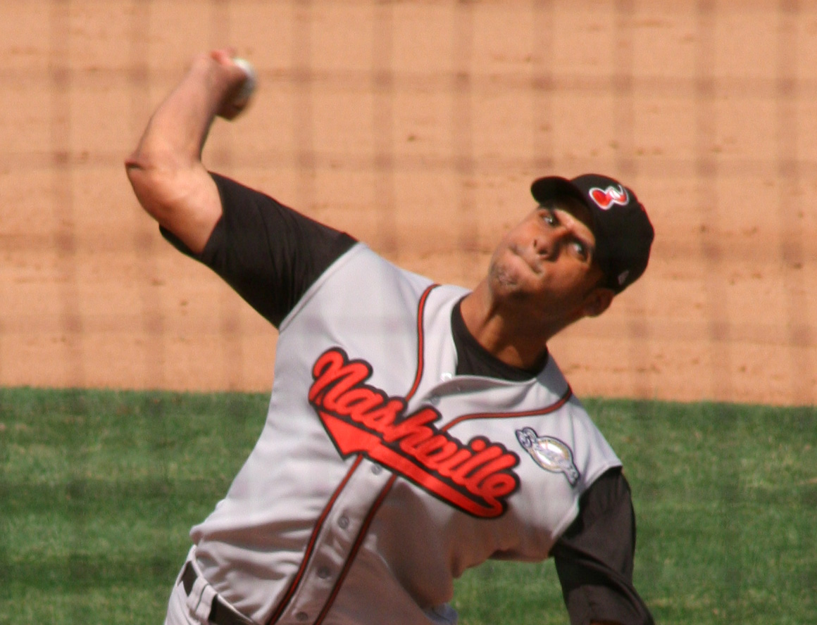 Luis Peña, a pitcher for the minor league Nashville Sounds, shown in mid-pitching motion during a game at Cashman Field on May 11, 2008